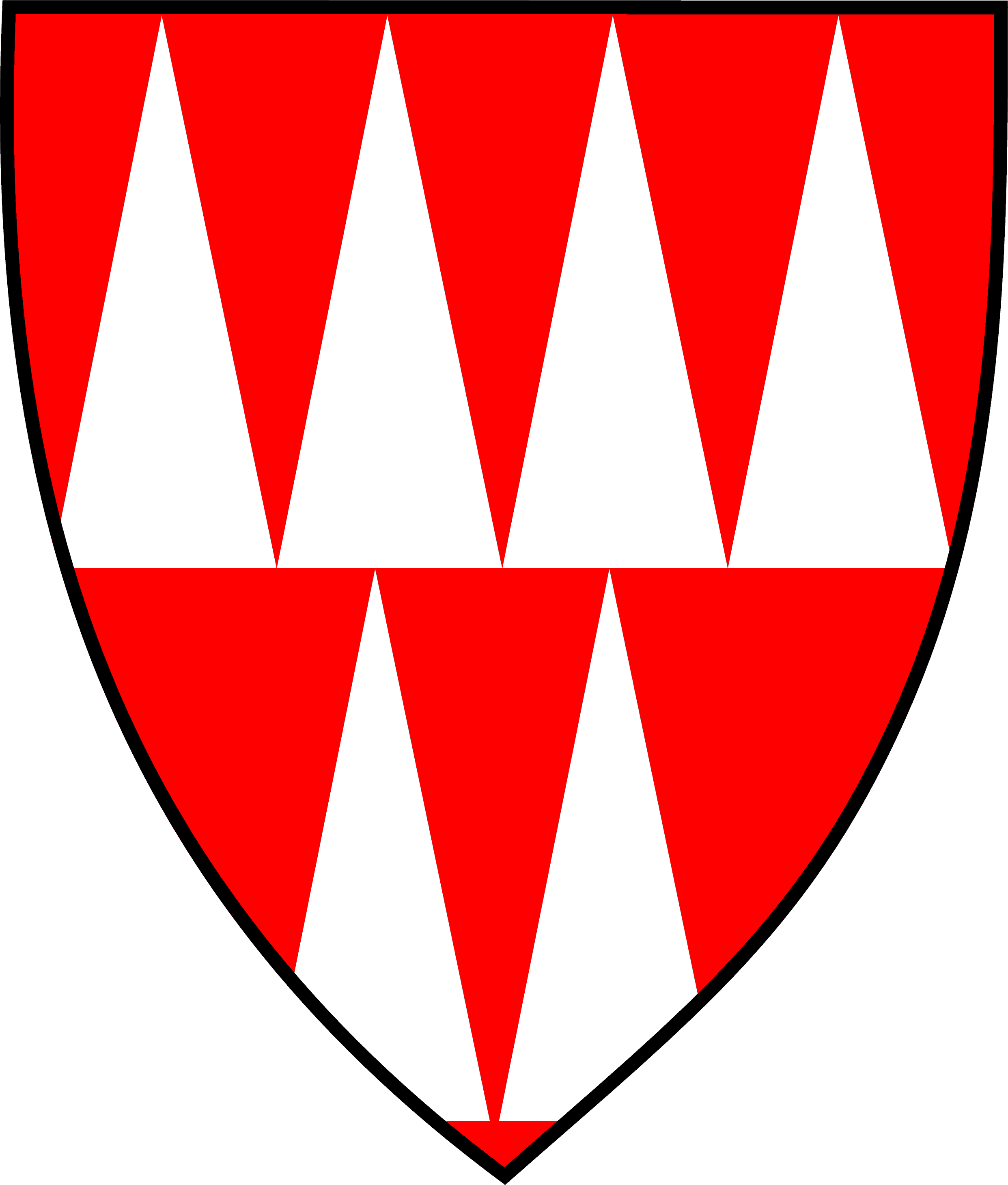 Coat of arms of Olomouc diocese